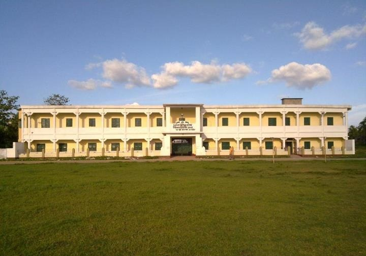 Main Building of The school